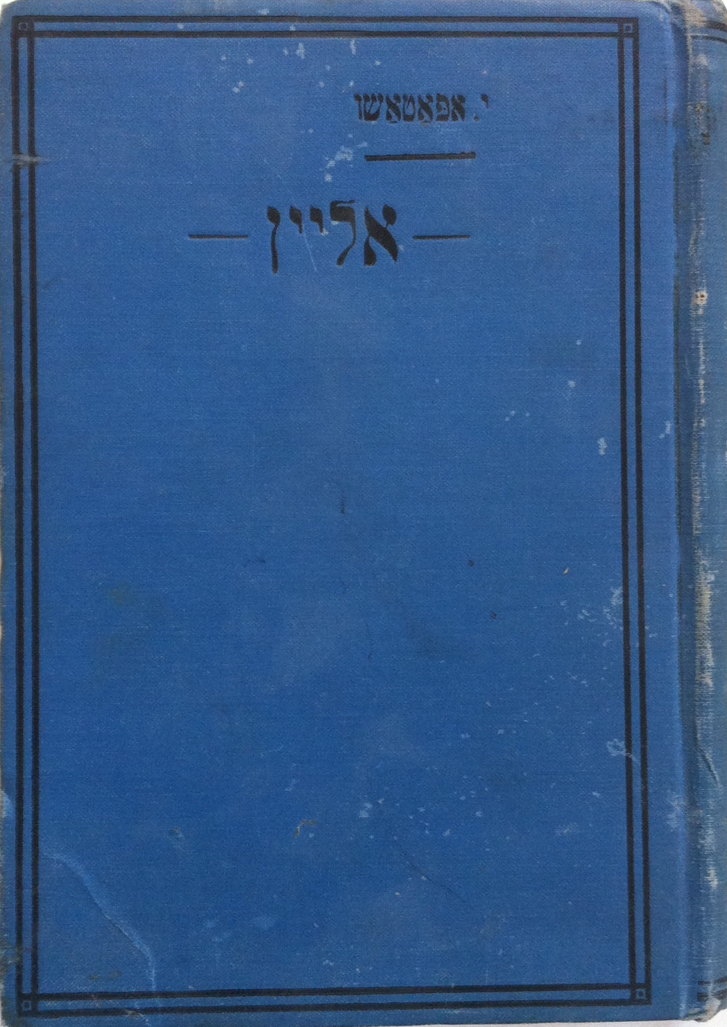 Frontcover of the book "Alein" of Opatoshu, 1919 edition